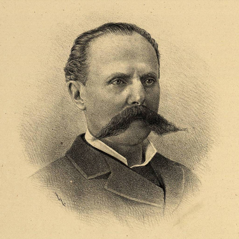 Pedro Rincon Gallardo, lithography from the book The prominent men of Mexico, 1888.